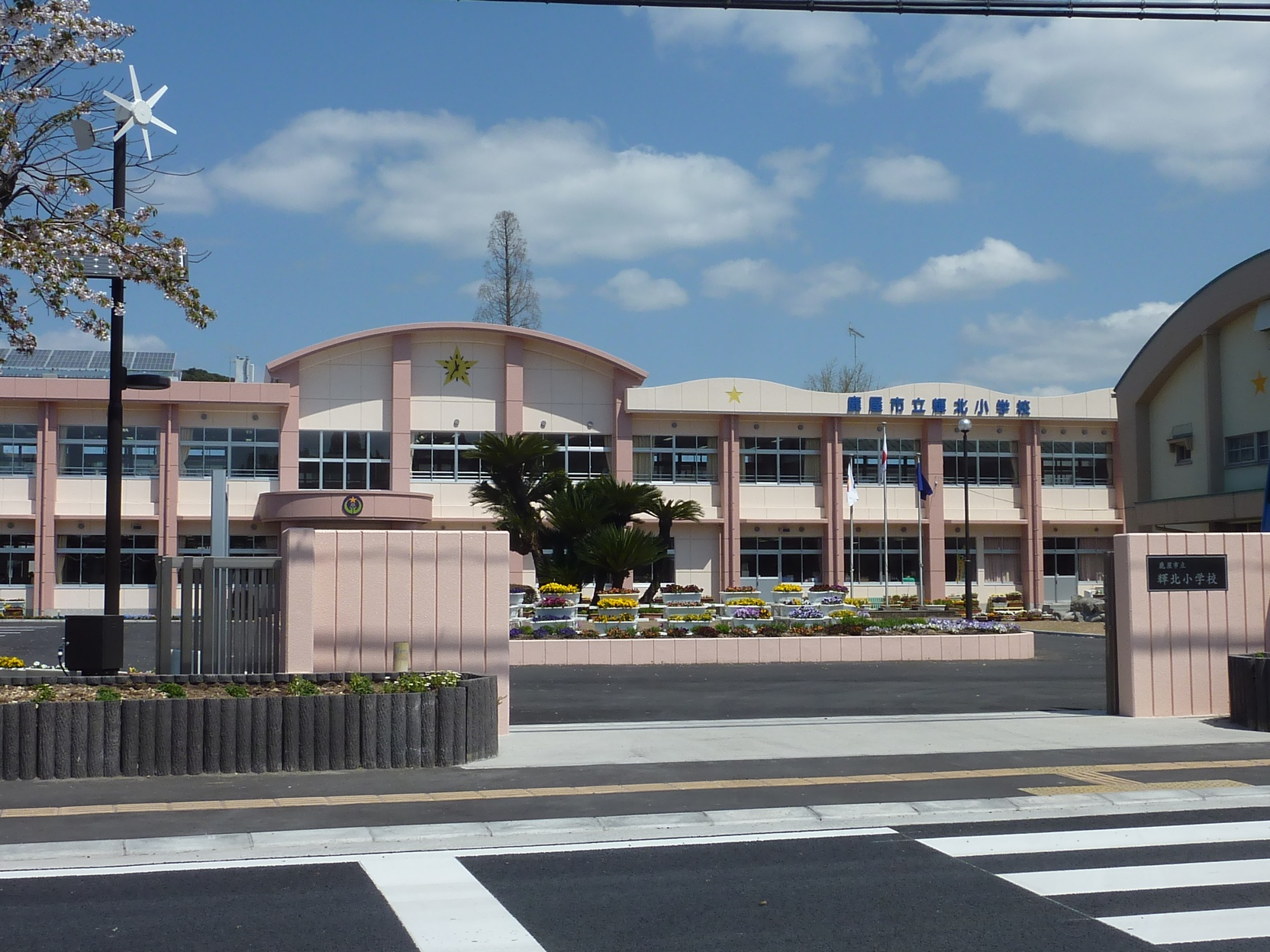 Kihoku Elementary School (Kanoya City, Kagoshima, Japan)